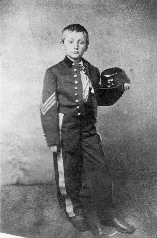 John Clem circa 1865